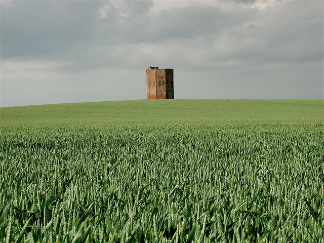 Wheat field at Hilston, Holderness, East Riding of Yorkshire, England, with Admiral Storr's Tower on the brow of the hill.The tower is an brick octagon, 50 ft high, built in 1750 for Joseph Storr (d. 1753). By 1852 was named after his son, Rear Admiral John Storr. It served as a seamark was used as a hospital for troops camped on the coast in 1794–5.